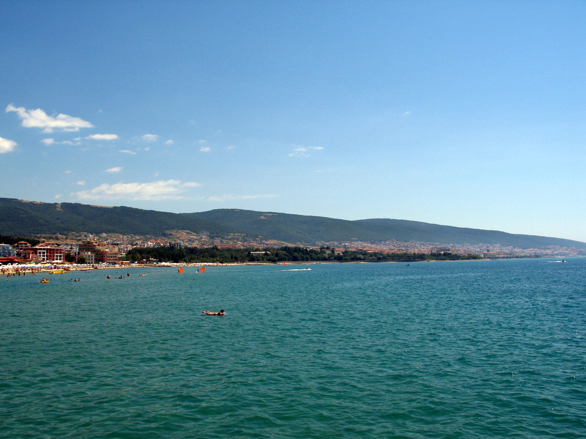 Sanny beach. Foto by Victor Belousov.